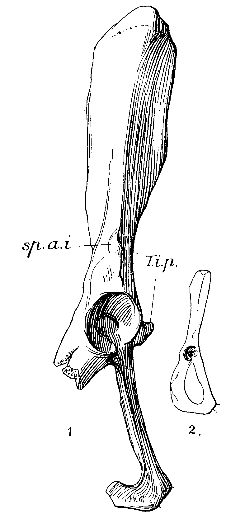 Drawing of (1) a partial right innominate of Myoryctes rapeto Forsyth Major, 1908 (=Plesiorycteropus madagascariensis Filhol, 1895), an enigmatic recently extinct mammal from Madagascar; and (2) a complete right innominate of the vole Arvicola amphibius.